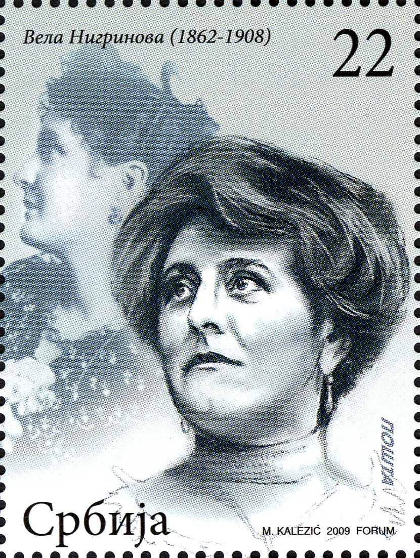 Famous Actors of Serbian Theatres